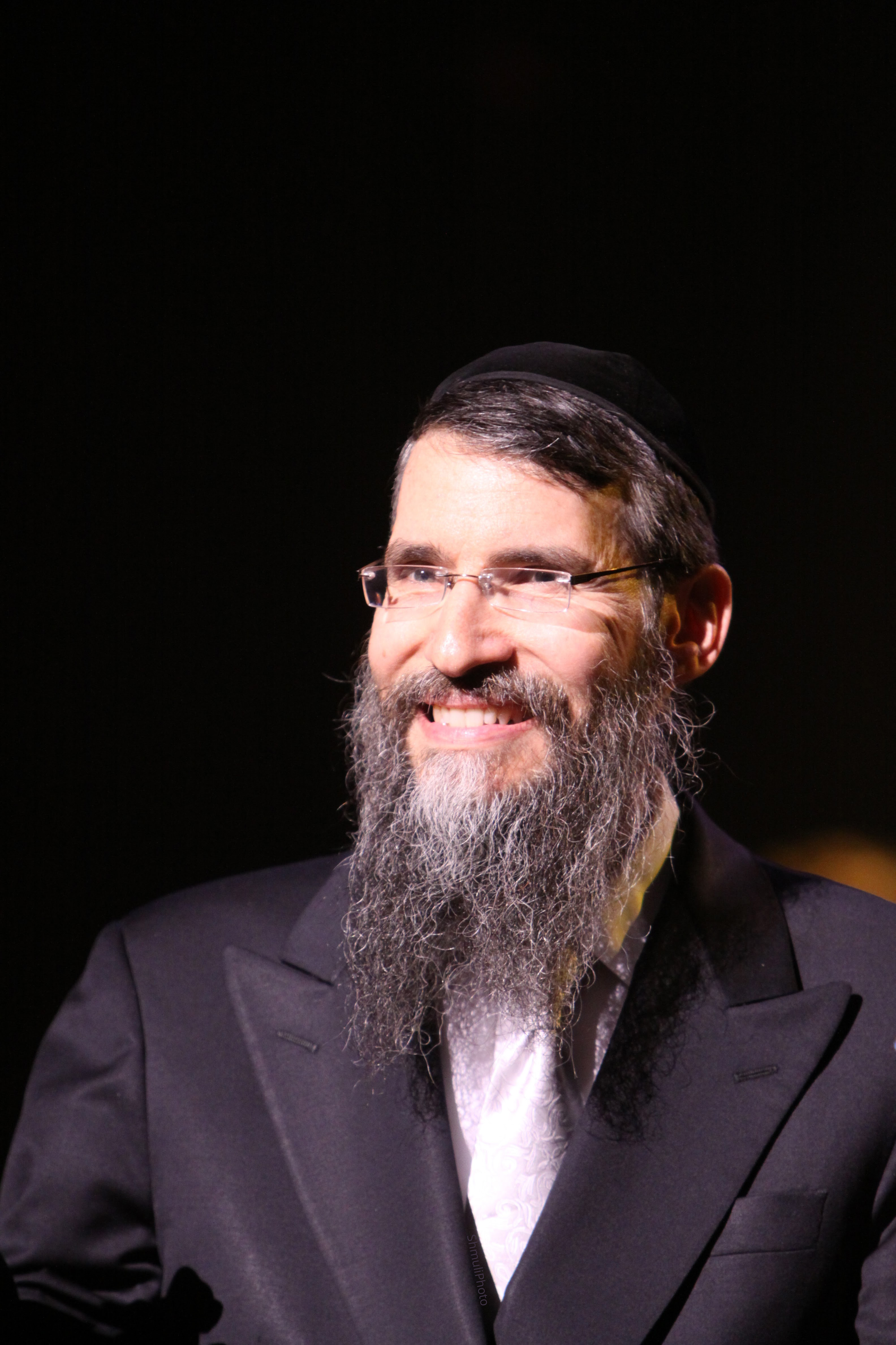 Avraham Fried in 2010